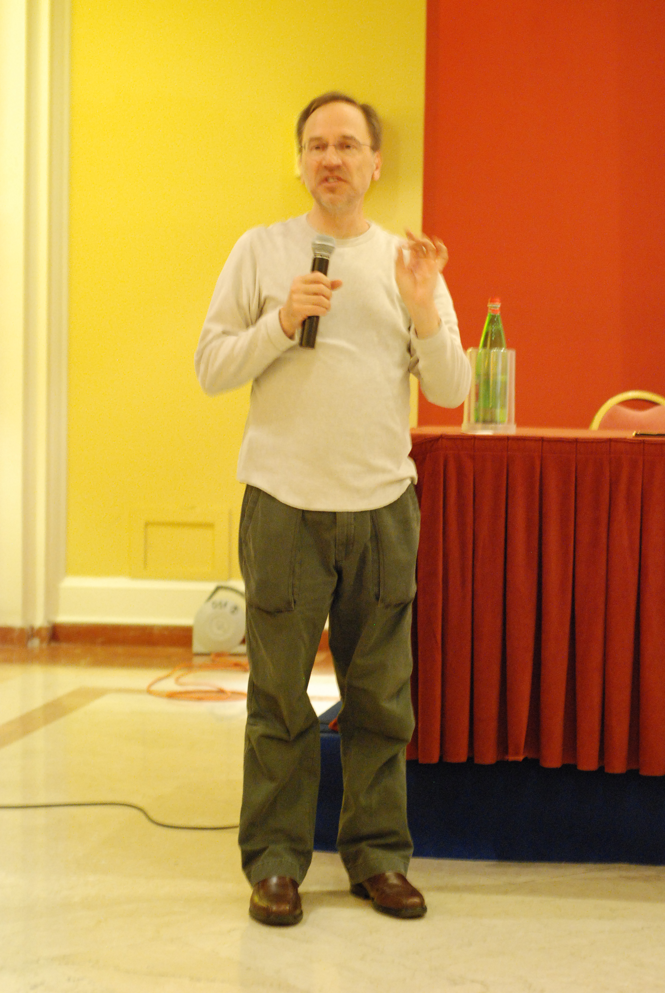 André Bormanis, 2010, Deepcon 11. American television producer, screenwriter and author of the book Star Trek: Science Logs.